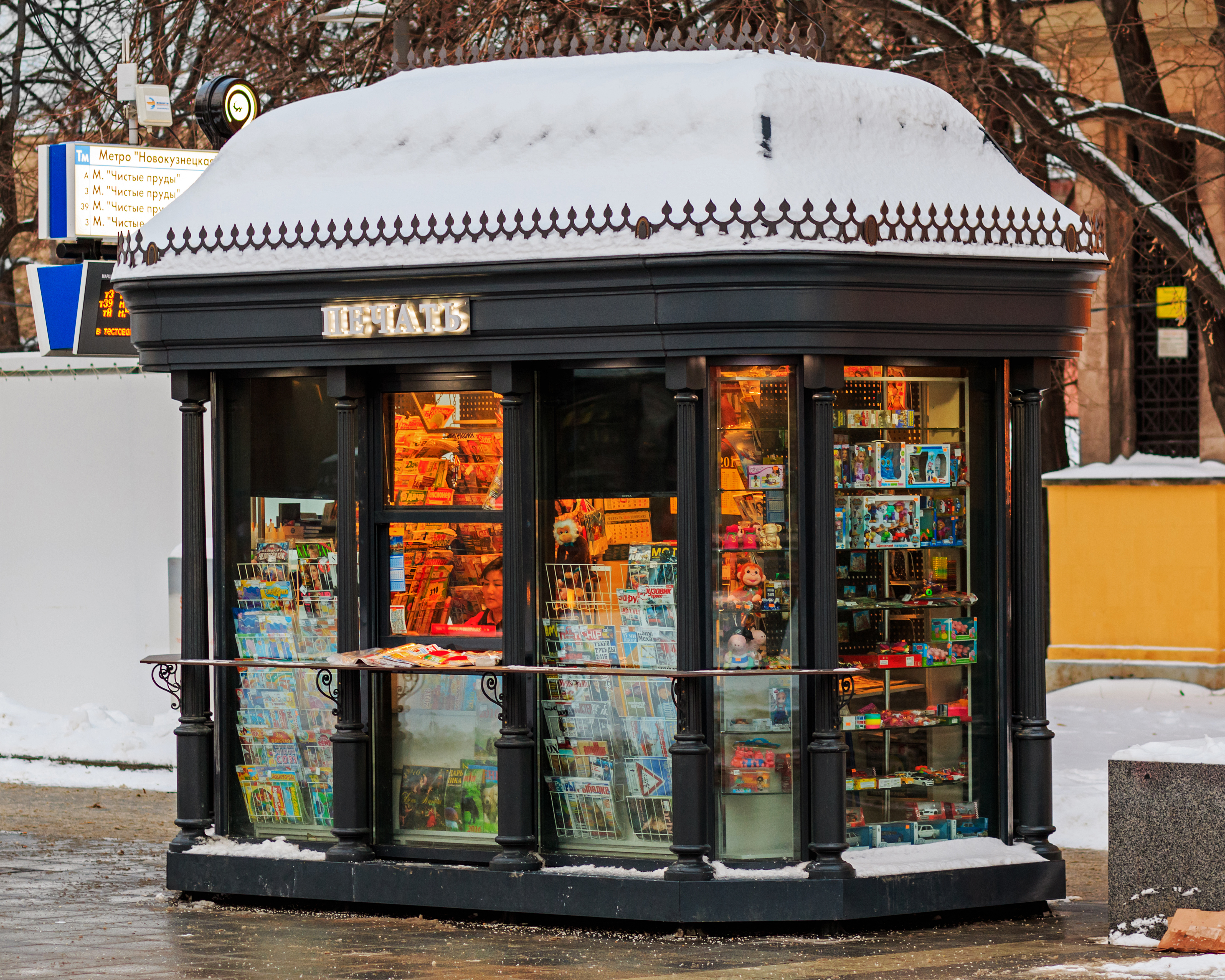 Newspaper stand in Moscow at Novokuznetskaya (MosMetro station) tram stop